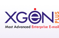 XgenPlus - The Most Advanced & Secured Enterprise Email Server